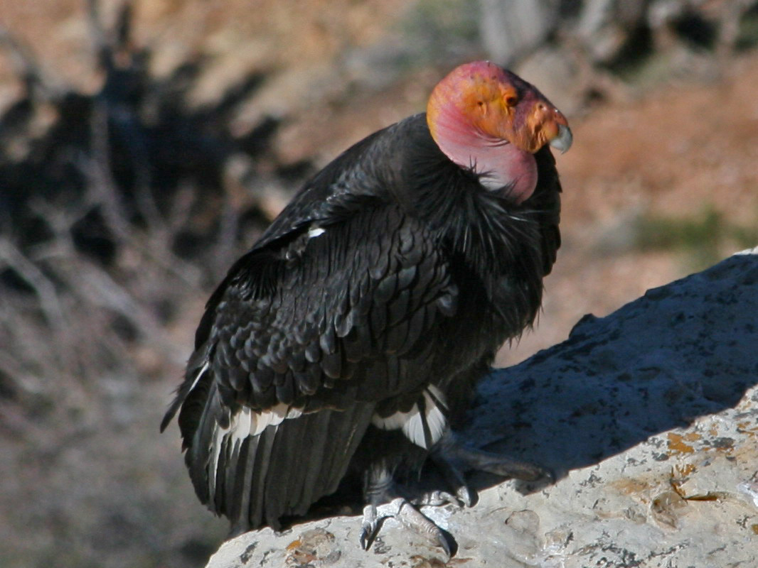 California Condor (Gymnogyps californianus) - Grand Canyon, Arizona